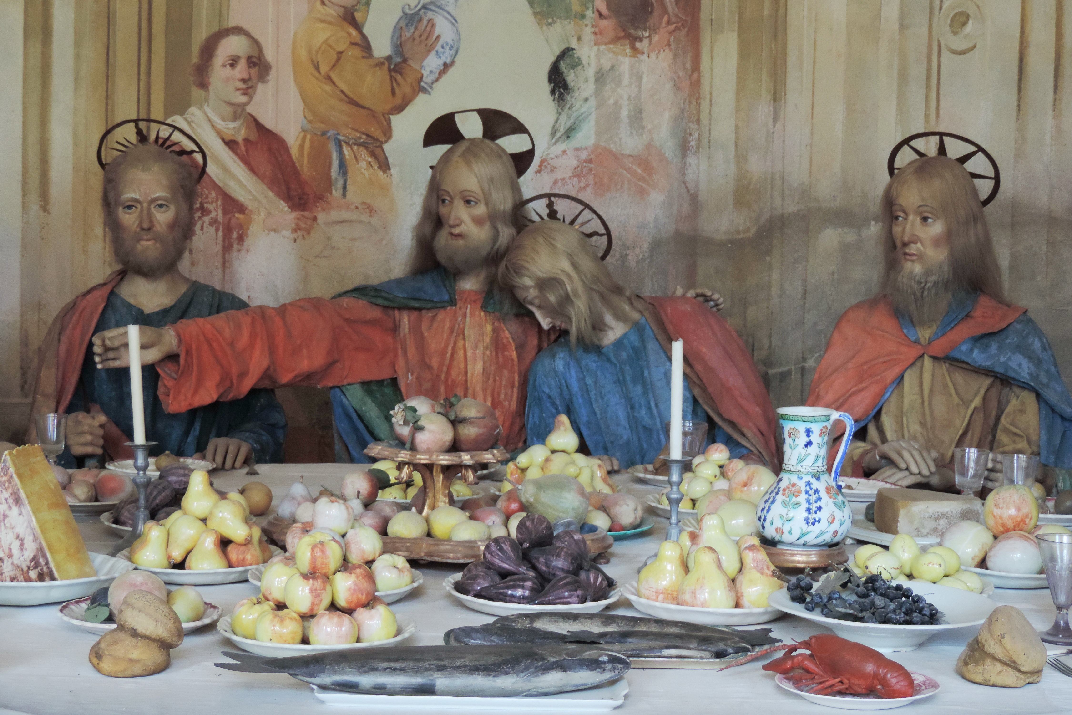 Sacro Monte di Varallo; Unknown Master, Last Supper (detail); wood statues, ca. 1500-05, Chapel XX